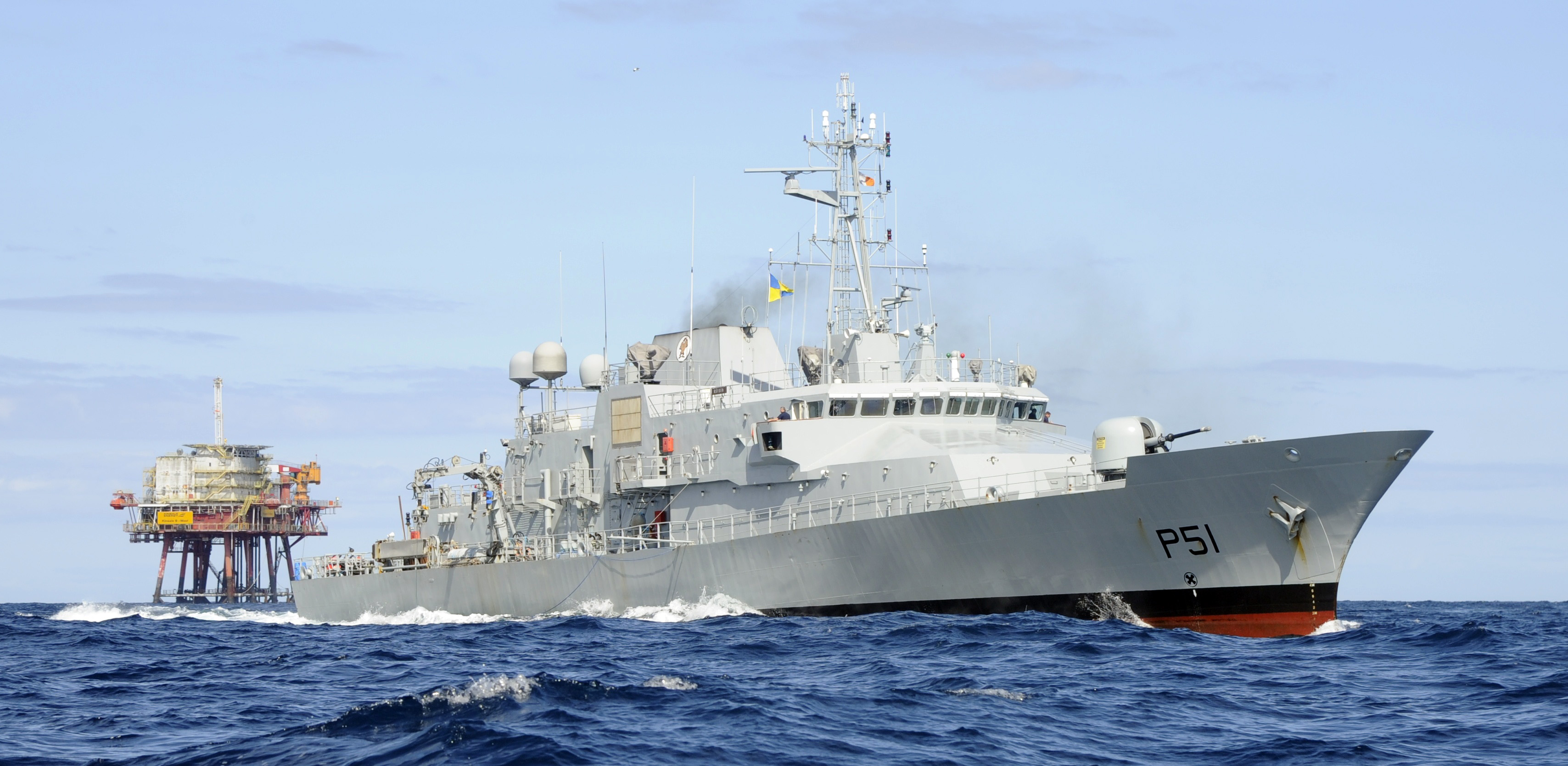 The LÉ Róisín on patrol in August 2013.